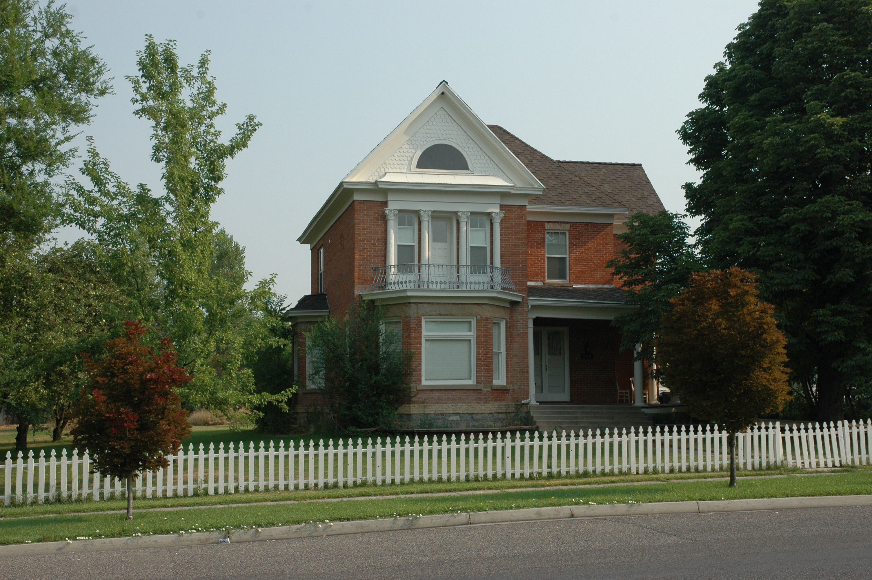 The John E. Lee House, a historic home in Hyde Park, Utah, United States.